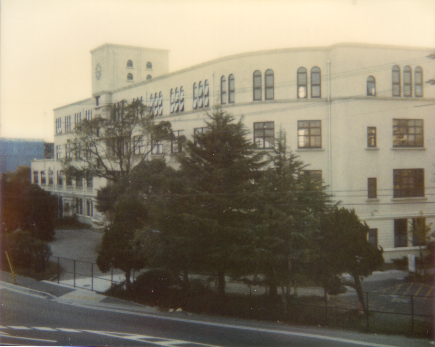 The former Main Bldg. of (prefectural) Kobe University of Commerce, one of the predecessors of the University of Hyogo. Built in 1931, removed around 1992.